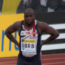 Simeon Williamson wait - Crystal Palace Grand Prix, Diamond League 2012